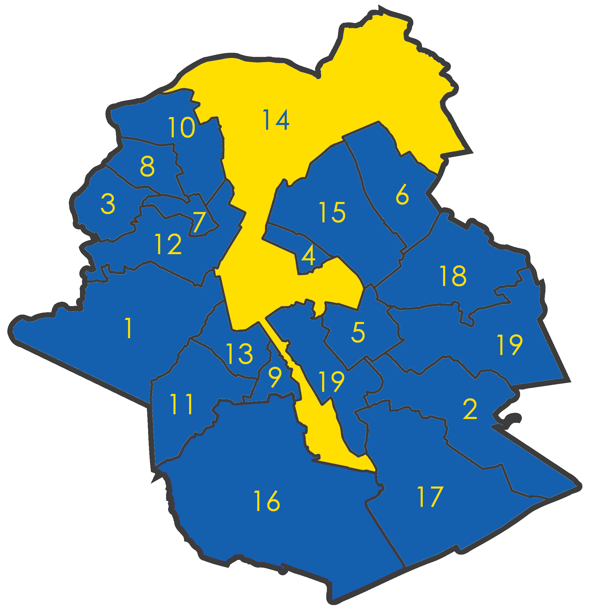 The Municipalities of the Brussels-Capital Region. 1.Anderlecht 2.Oudergem/Auderghem 3.Sint-Agatha-Berchem/Berchem-Sainte-Agathe 4.Sint-Joost-ten-Node/Saint-Josse-ten-Noode 5.Etterbeek 6.Evere 7.Koekelberg 8.Ganshoren 9.Elsene/Ixelles 10.Jette 11.Vorst/Forest 12.Sint-Jans-Molenbeek/Molenbeek-Saint-Jean 13.Sint-Gillis/Saint-Gilles 14.City of Brussels 15.Schaarbeek/Schaerbeek 16.Ukkel/Uccle 17.Watermaal-Bosvoorde/Watermael-Boitsfort 18.Sint-Lambrechts-Woluwe/Woluwe-Saint-Lambert 19.Sint-Pieters-Woluwe/Woluwe-Saint-Pierre